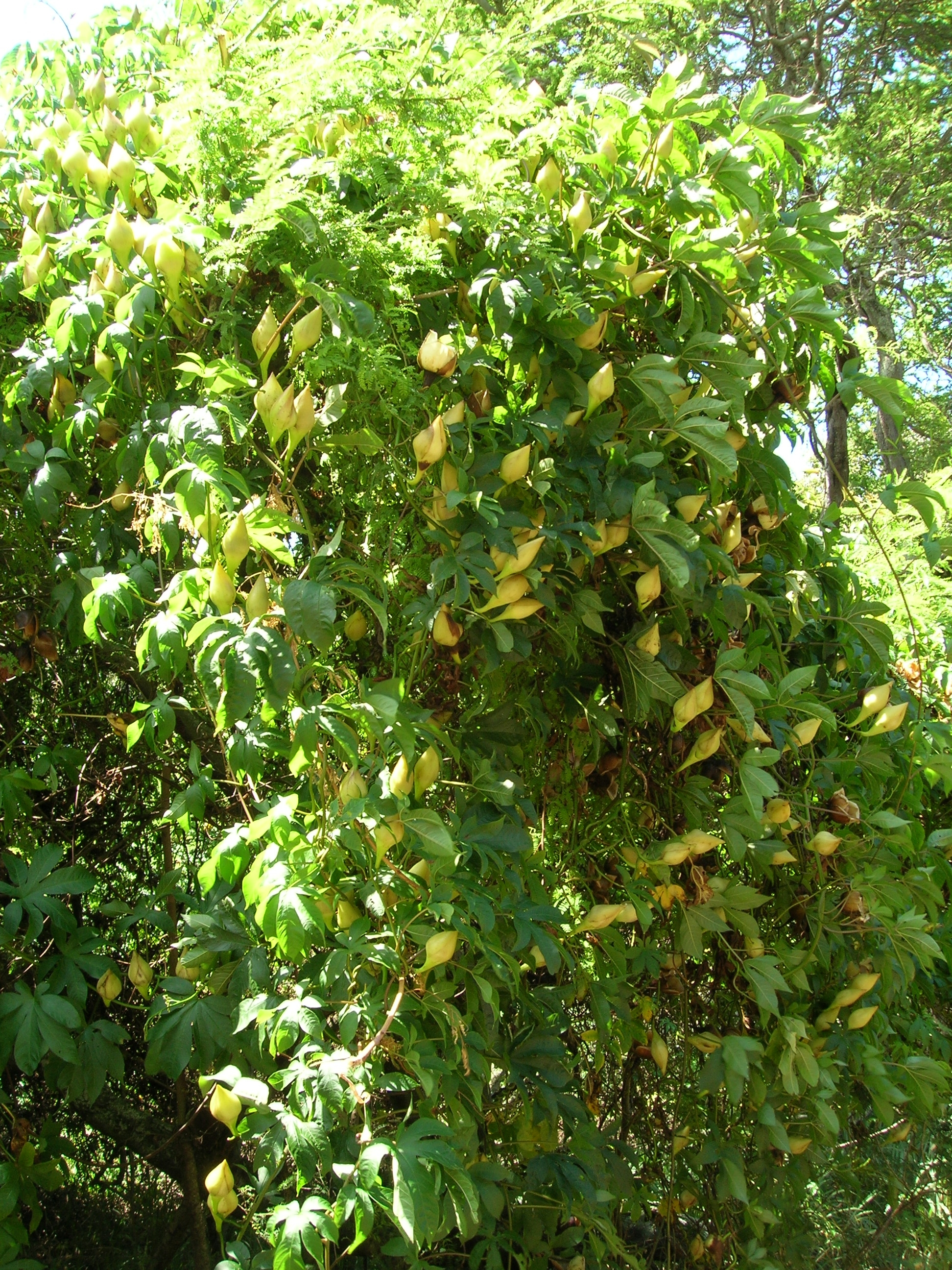 Merremia tuberosa (habit). Location: Molokai, Kamalo